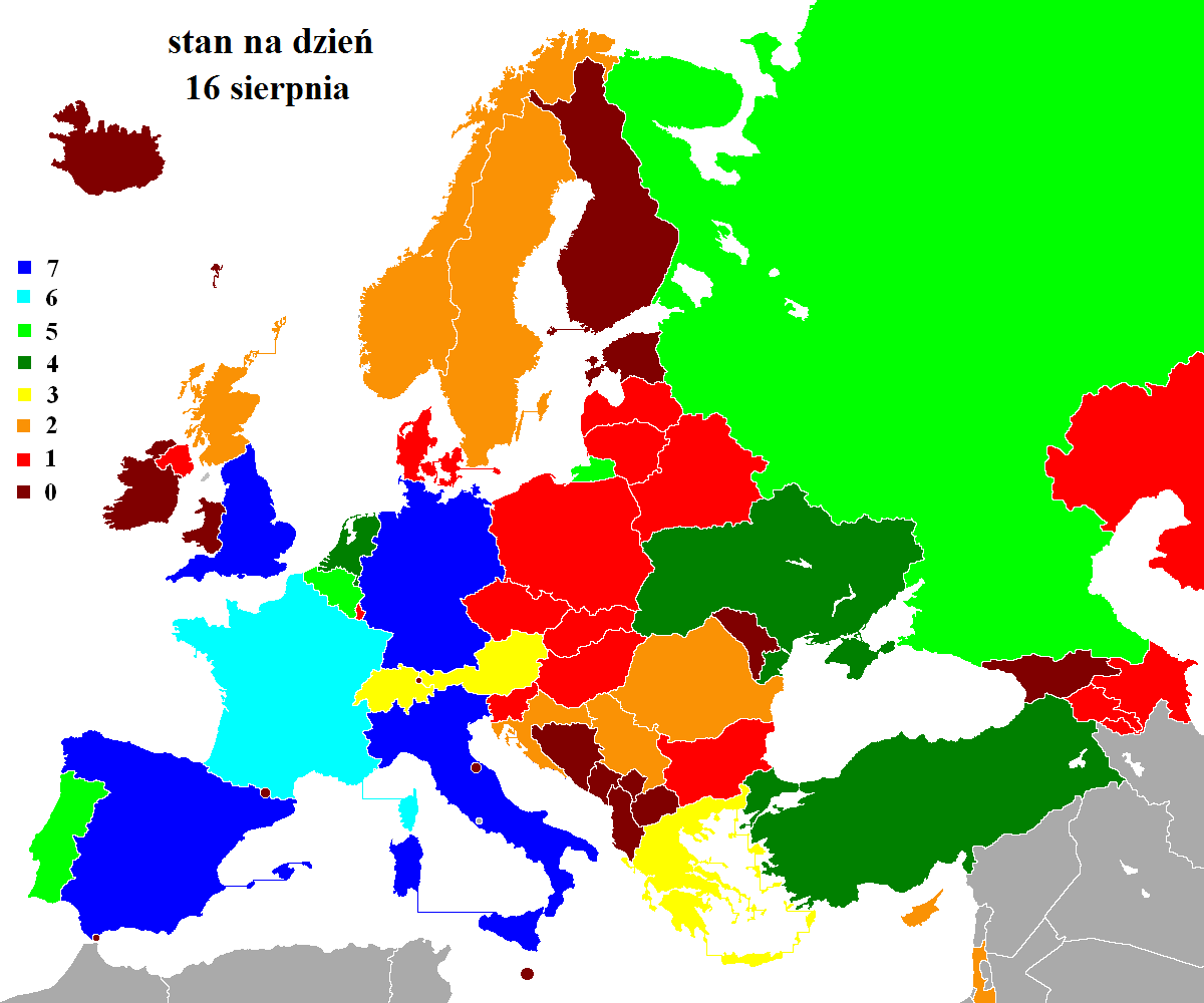 If some country is marked with yellow color, it means that 3 teams from that country is still playing in European competition matches (i.e. Champions League and UEFA Europa League.)